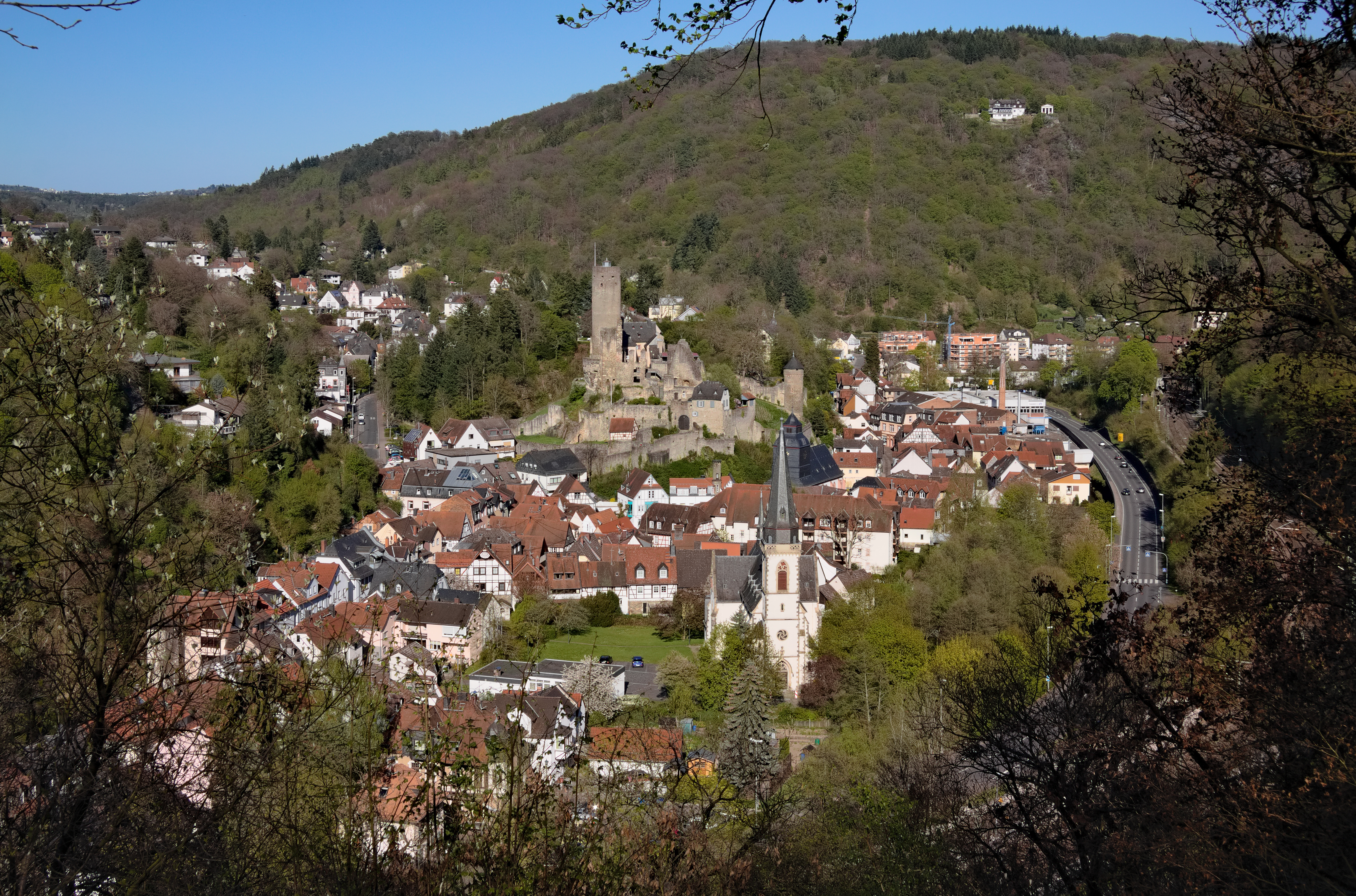 Eppstein, Taunus, Germany. Overall view from west-southwestern direction, from the former mountain park "Villa Anna".